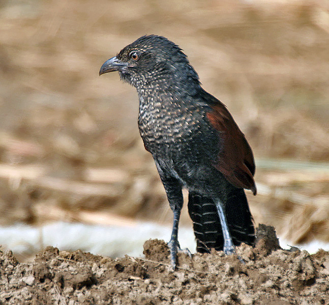 Greater Coucal Centropus sinensis at/ near Hodal in Faridabad District of Haryana, India.